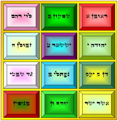 Hoshen. Breastplate of the Jewish Kohen ha-Gadol (High Priest).